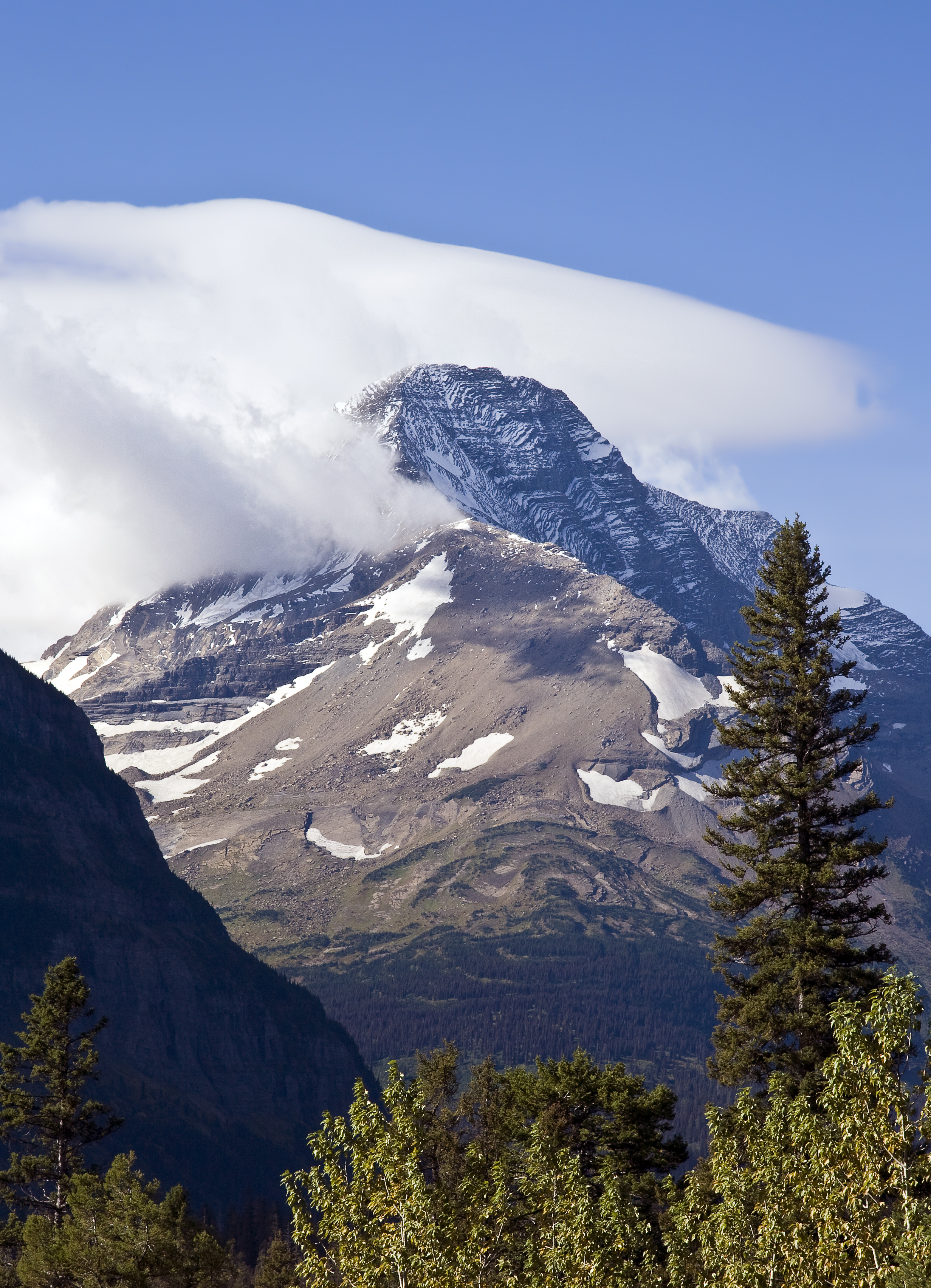 Mount Jackson in Glacier National Park from the Going-to-the-Sun Road, looking southwest